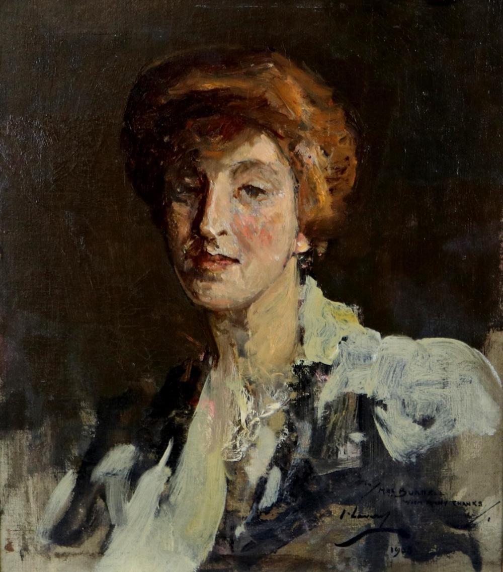 Oil portrait signed by Lavery and dated 1903 with an inscription by the artist: to Mrs Burrell with many thanks.